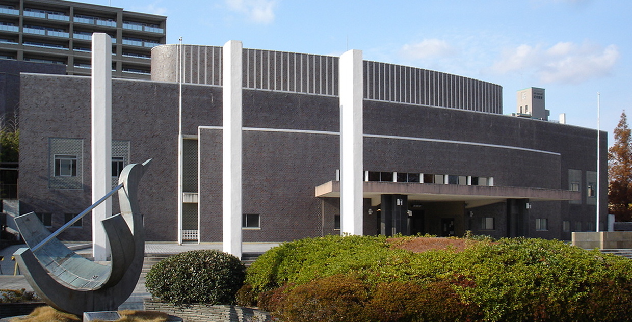 Watanabe_Memorial_Hall in Ube, Yamaguchi prefecture, Japan